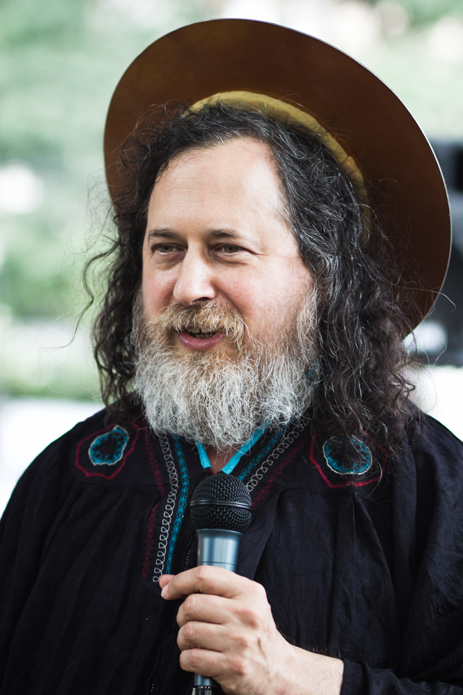 PosTV com Richard Stallman